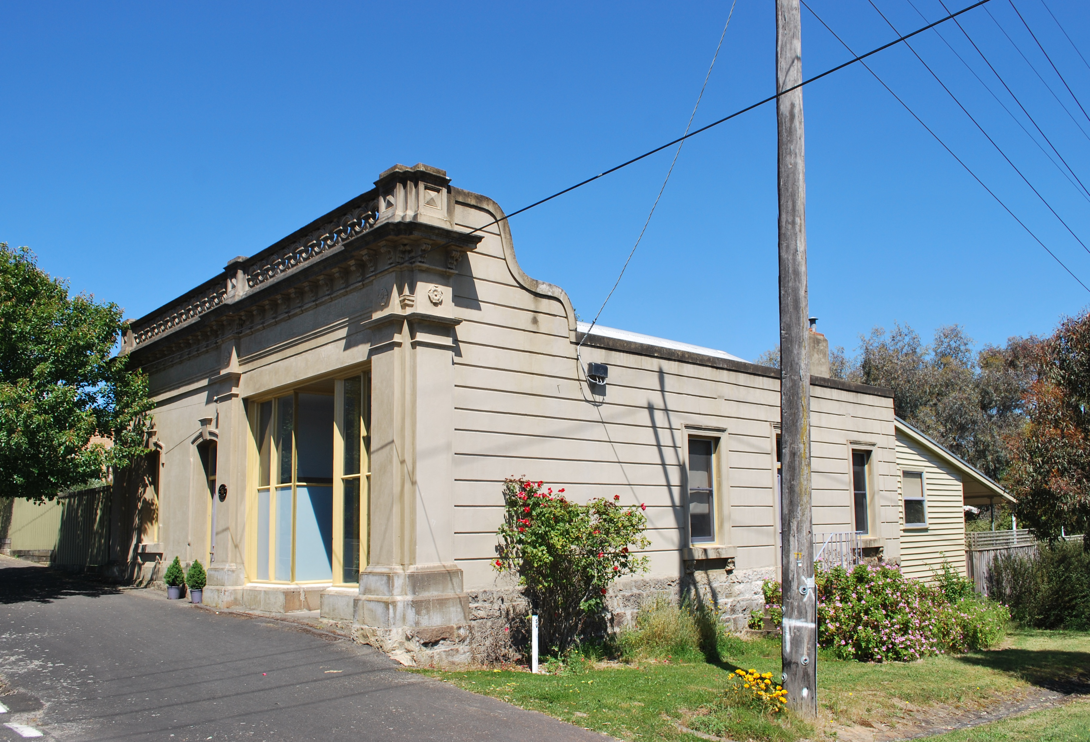 The BARR building in Linton, Victoria. The building once housed a haberdasher/glovemaker and the doctor